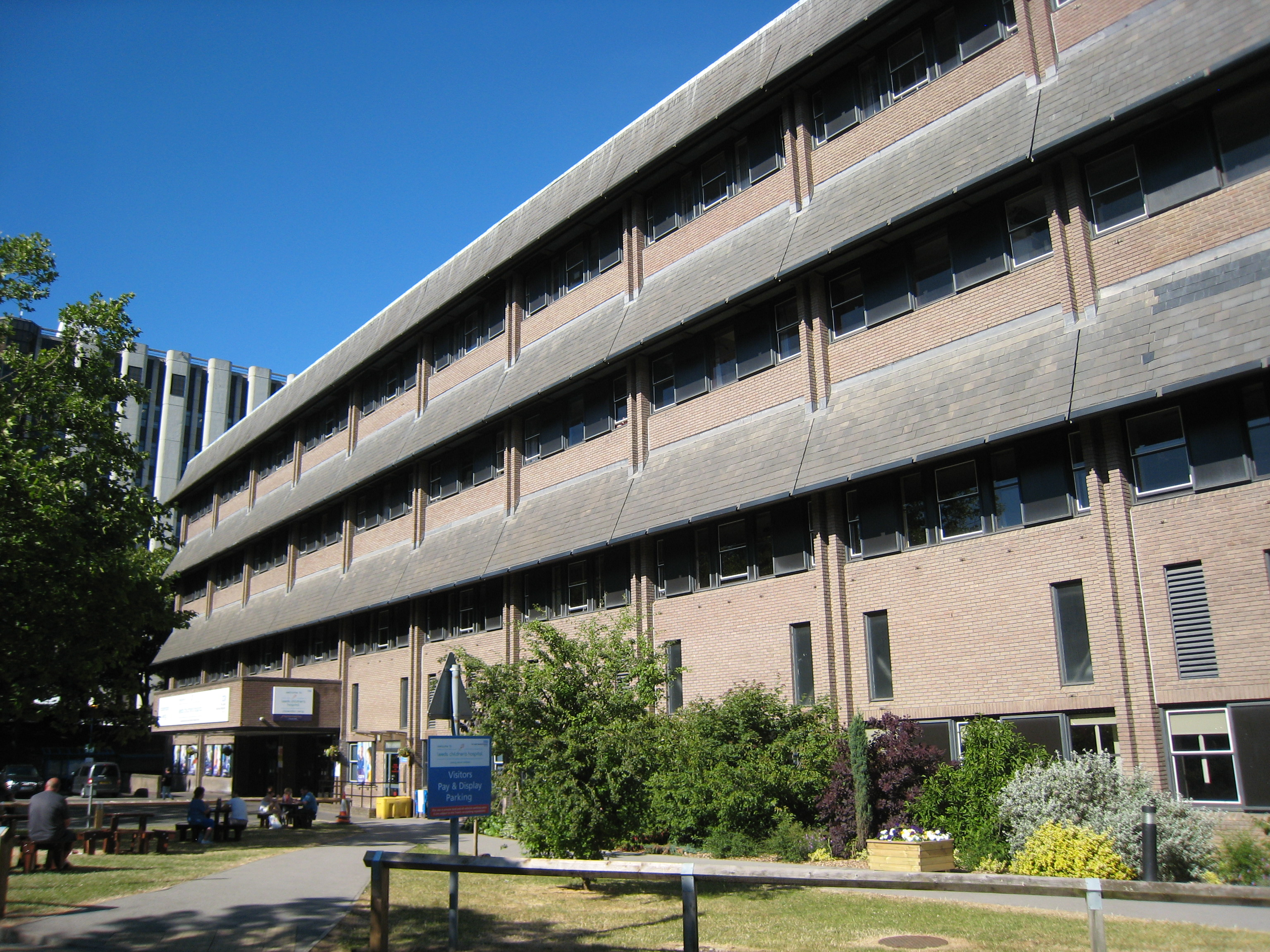 Leeds General Infirmary, Clarendon Wing. Leeds Children's Hospital. Brick and grey slate. Main entrance in the distance with white sign above it.